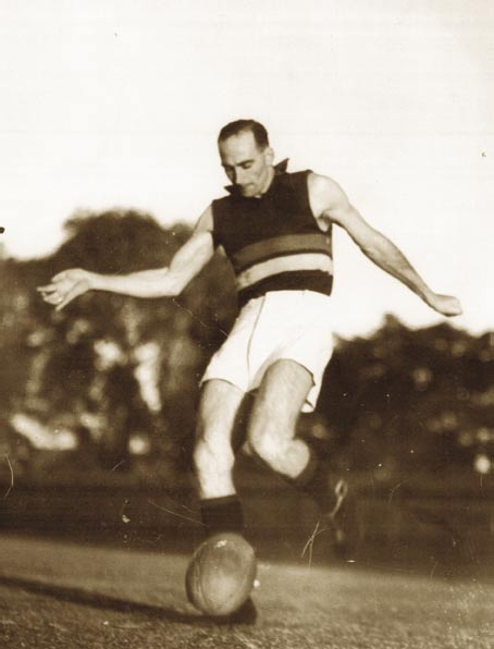 Photograph circa 1940 of Australian rules football player "Mick" Cronin.